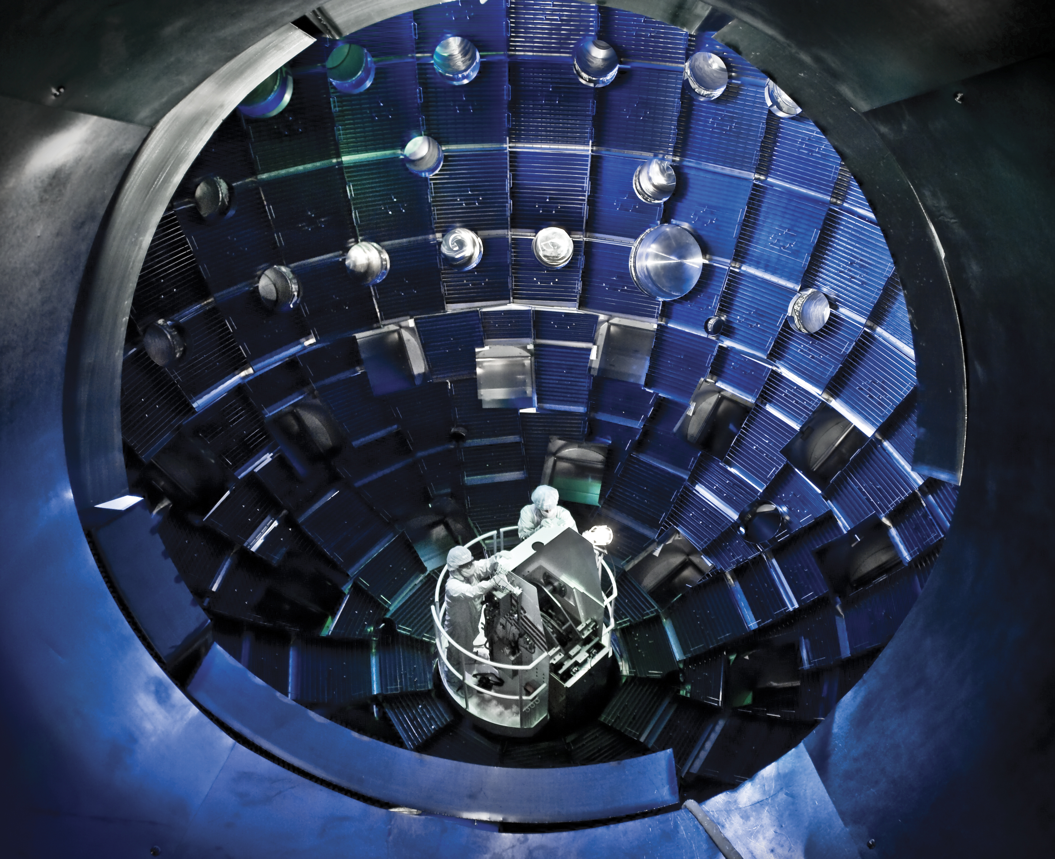 LAWRENCE LIVERMORE NATIONAL LABORATORY'S NATIONAL IGNITION FACILITY TARGET CHAMBER. A SERVICE SYSTEM LIFT ALLOWS TECHNICIANS TO ACCESS THE TARGET CHAMBER INTERIOR FOR INSPECTION AND MAINTENANCE. For more information or additional images, please contact 202-586-5251.